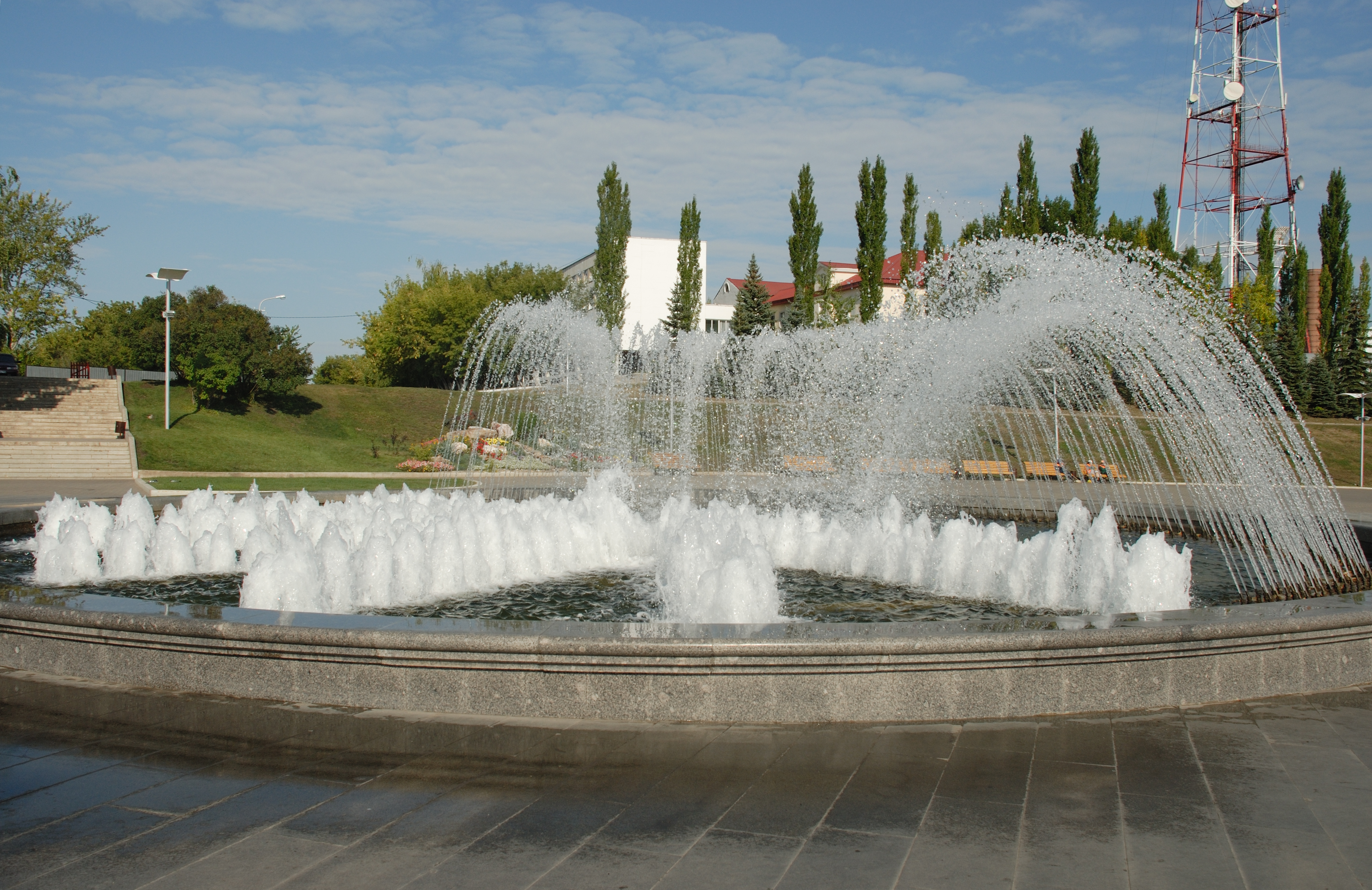 Fountain near Congress Hall, Ufa.